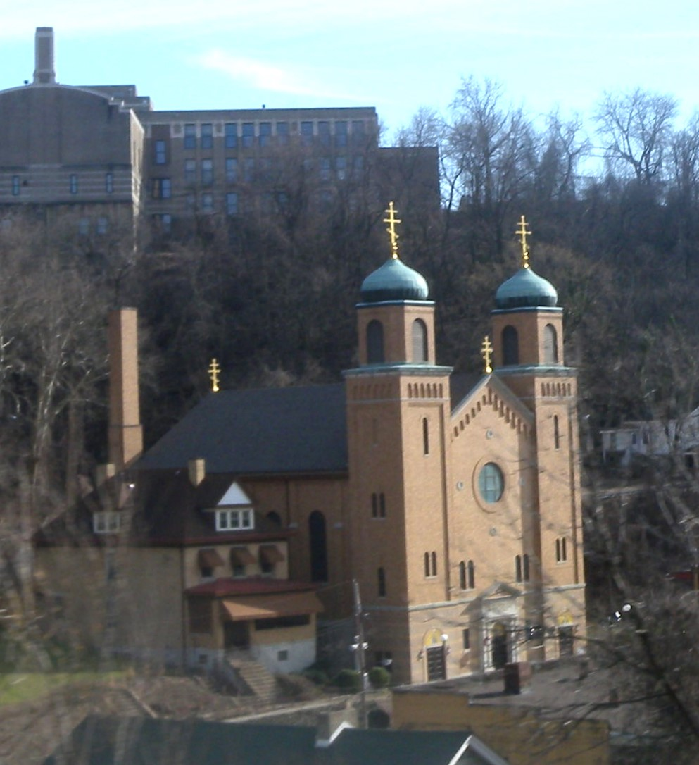 Looking south from an eastbound bus on I-376 at Andy Warhol's church near sunset of a sunny day. ZIP 15207